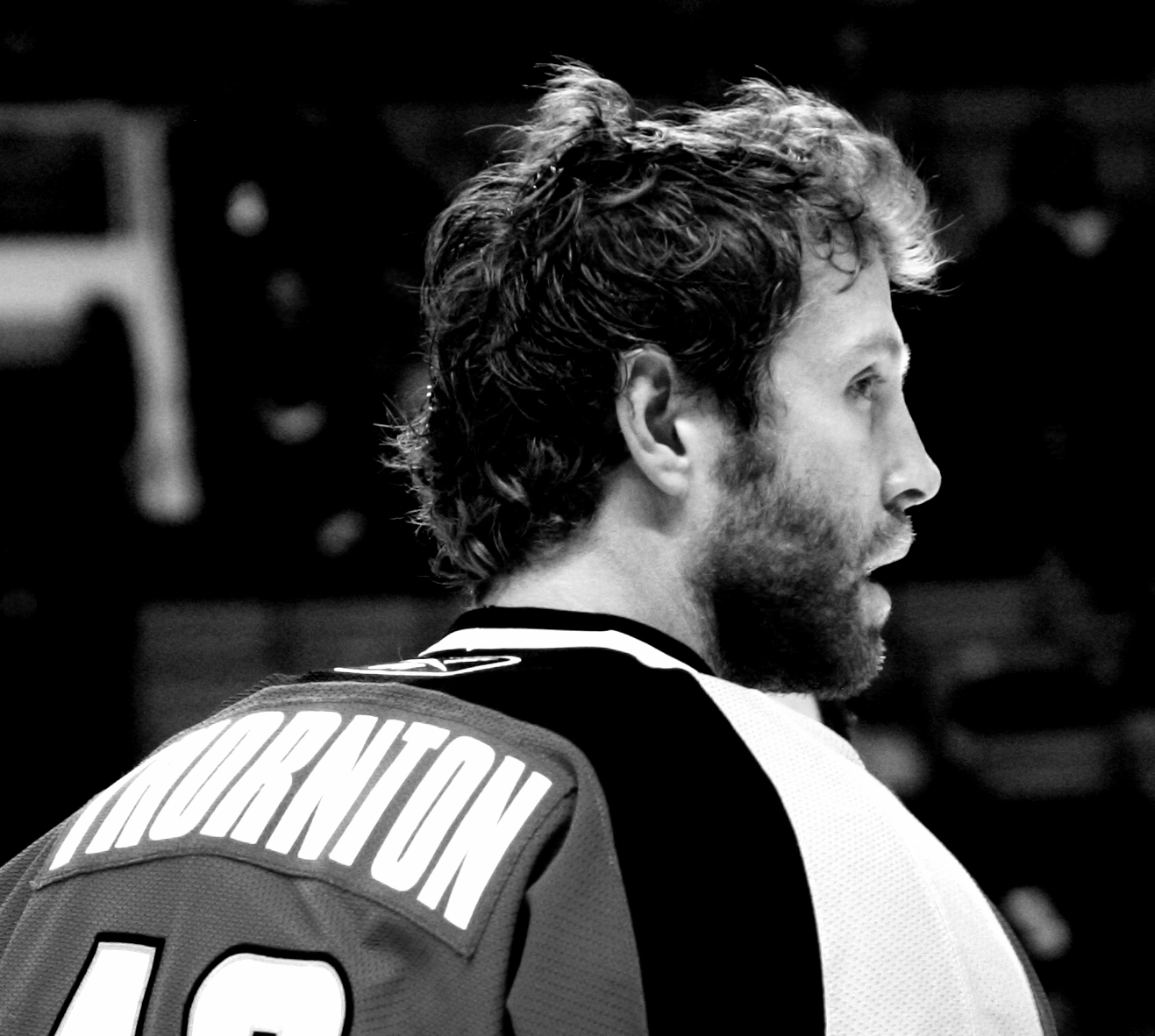 Joe Thornton, San Jose Sharks, before the game agains the Nashville Predators on Feb 28, 2007.